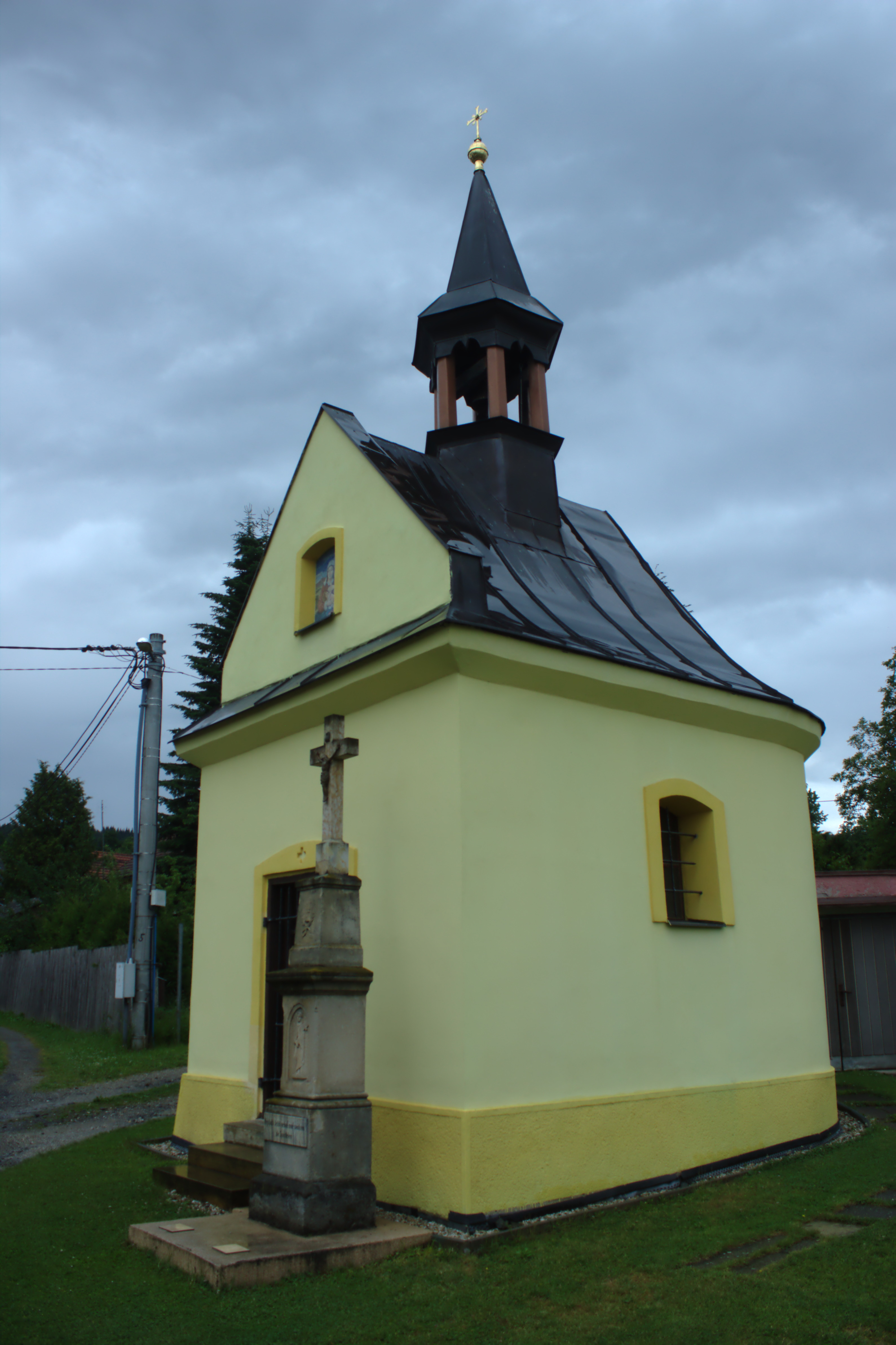 A chapel in the village of Lipinka, Olomouc Region, CZ